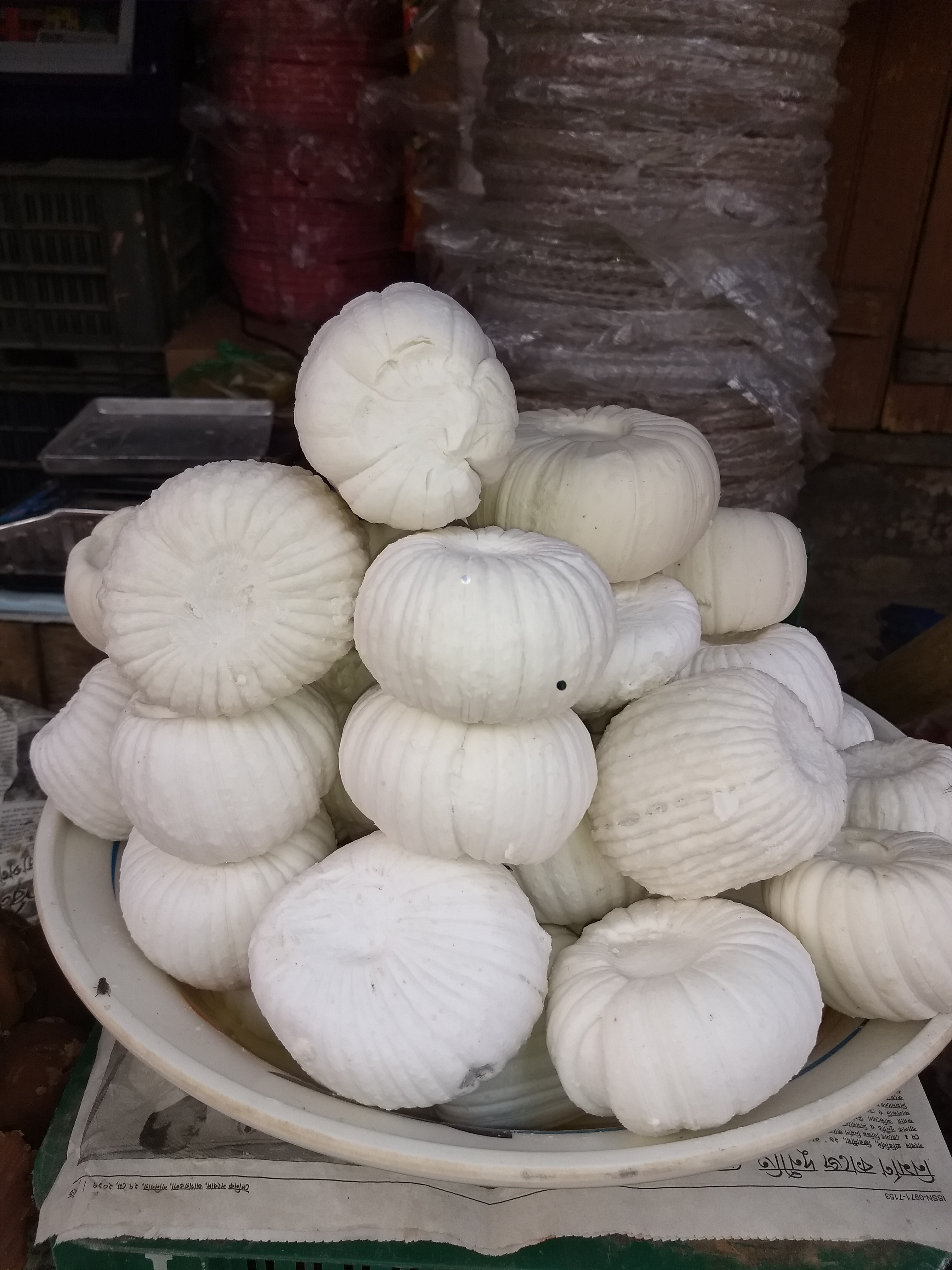 Kodma are selling in a market, Agartala, India.